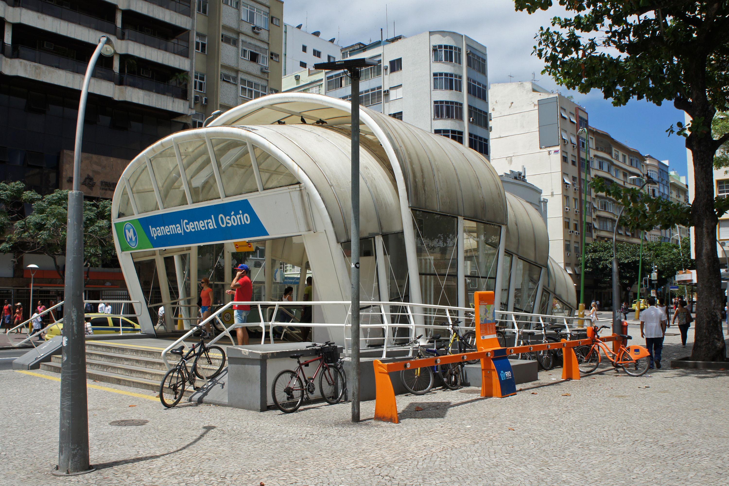 Bike Rio docking station at Ipanema/General Osorio Metro station, Rio de Janeiro